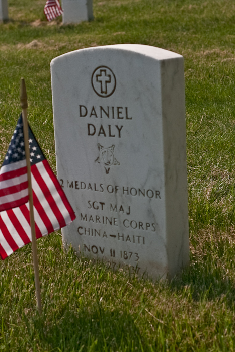 Congressional Medal of Honor recipient Daniel Daly, two-time winner. Cypress Hills National Cemetery, Brooklyn, New York City. Photo by Kevin C. Fitzpatrick.